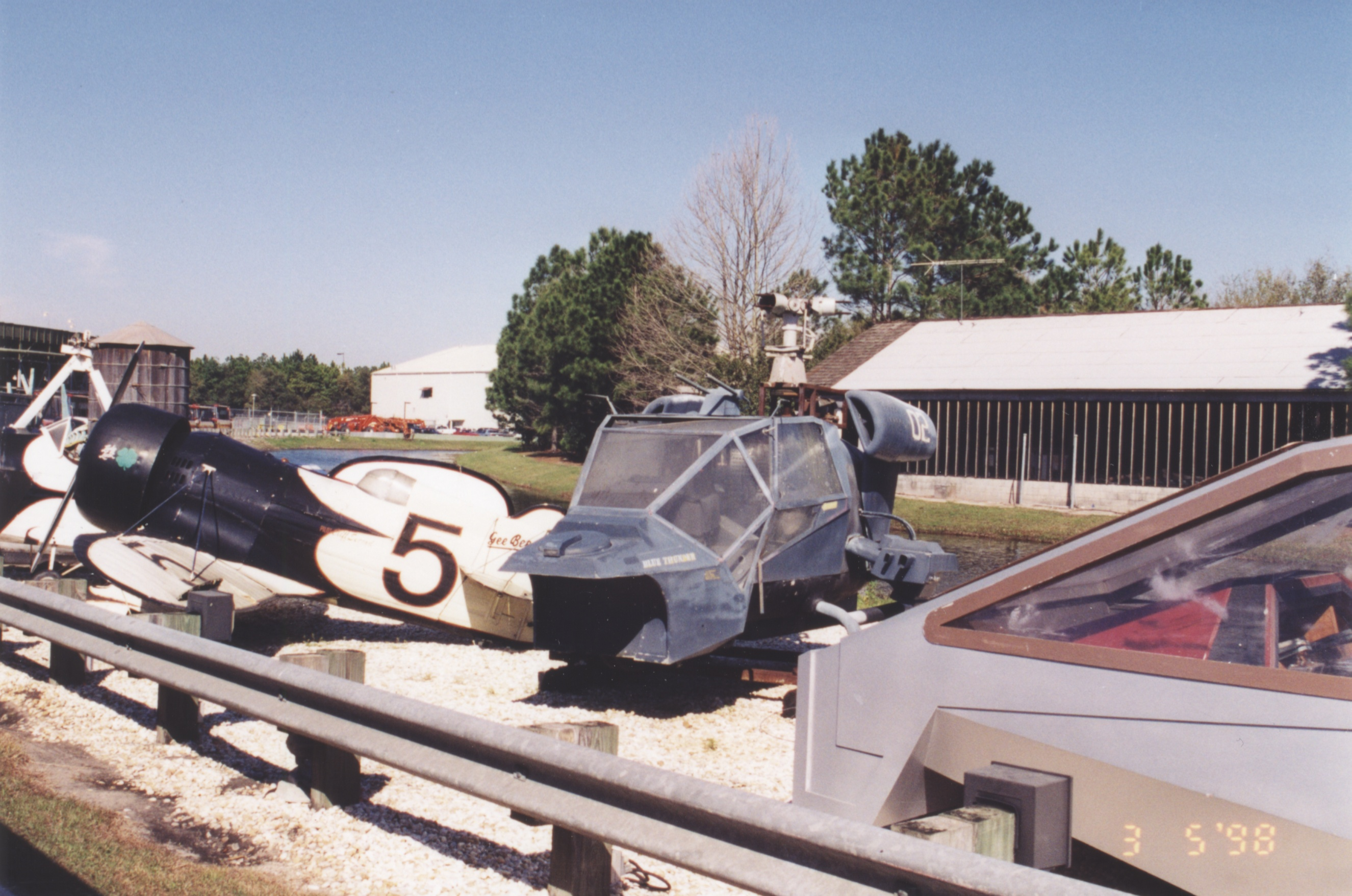 Blue Thunder mockup in disrepair in a backlot at MGM, Florida. At left is a Gee Bee Z possibly used in The Rocketeer.